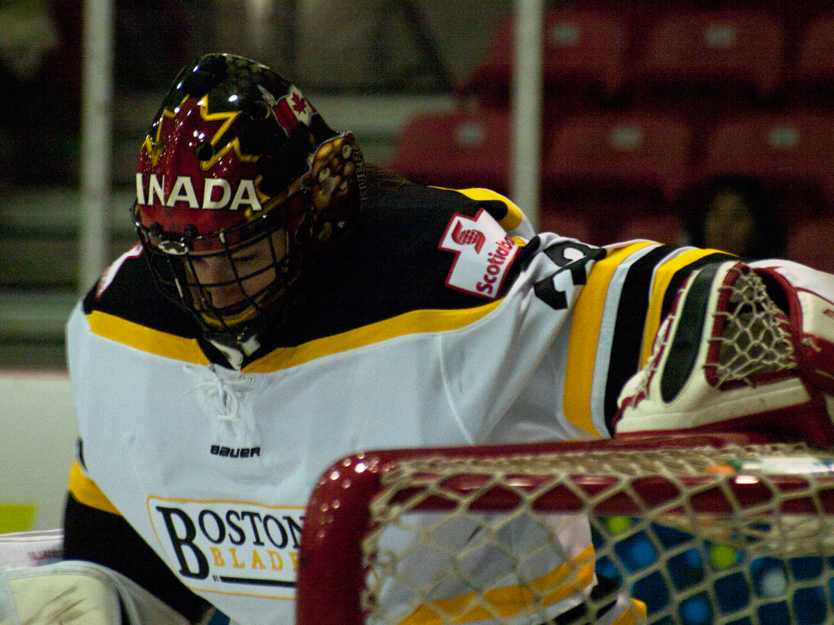 Boston Blades goalie Geneviève Lacasse asse takes a moment before the game starts.